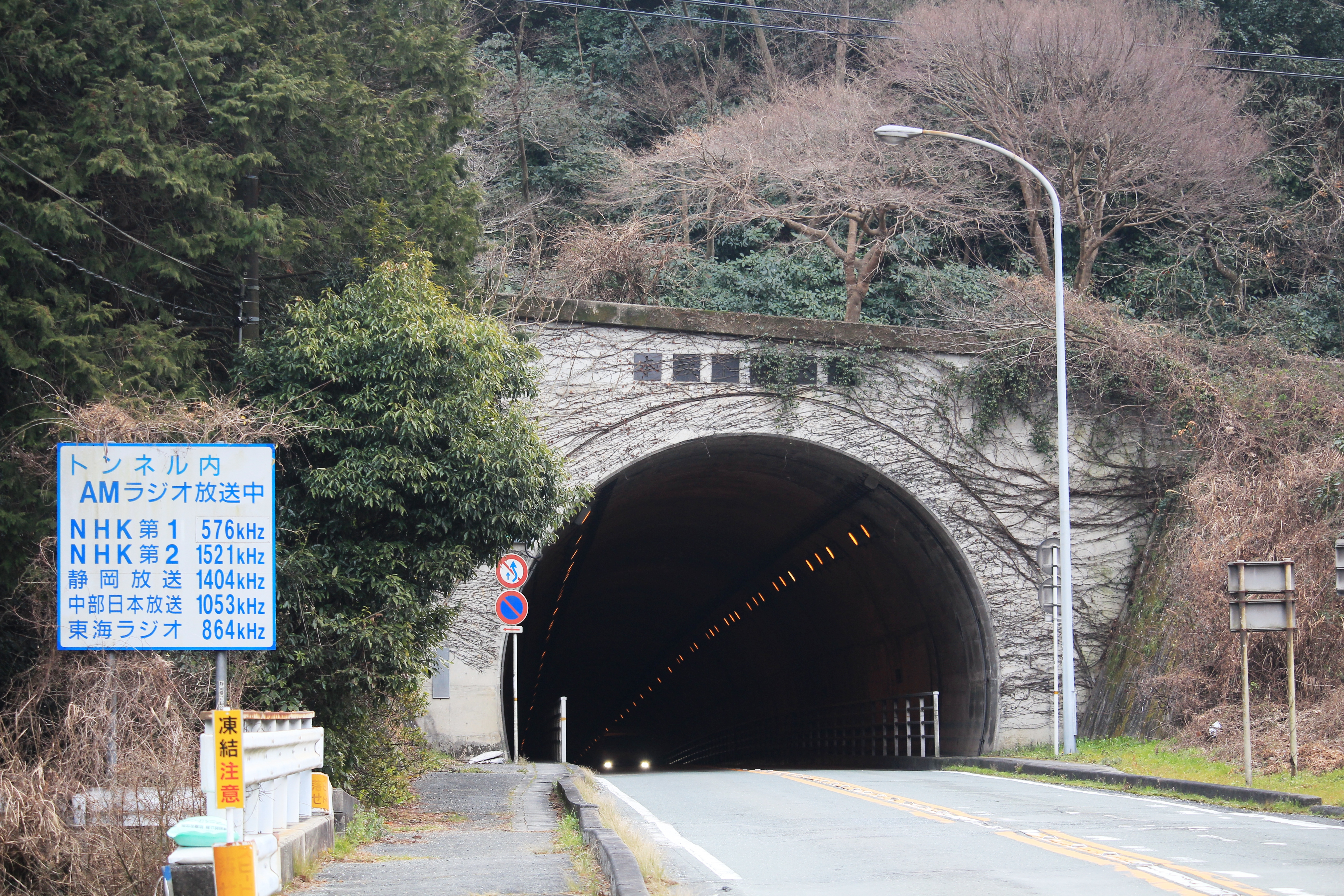 Honzaka Tunnel of R362, in Toyohashi, Aichi prefecture, Japan.